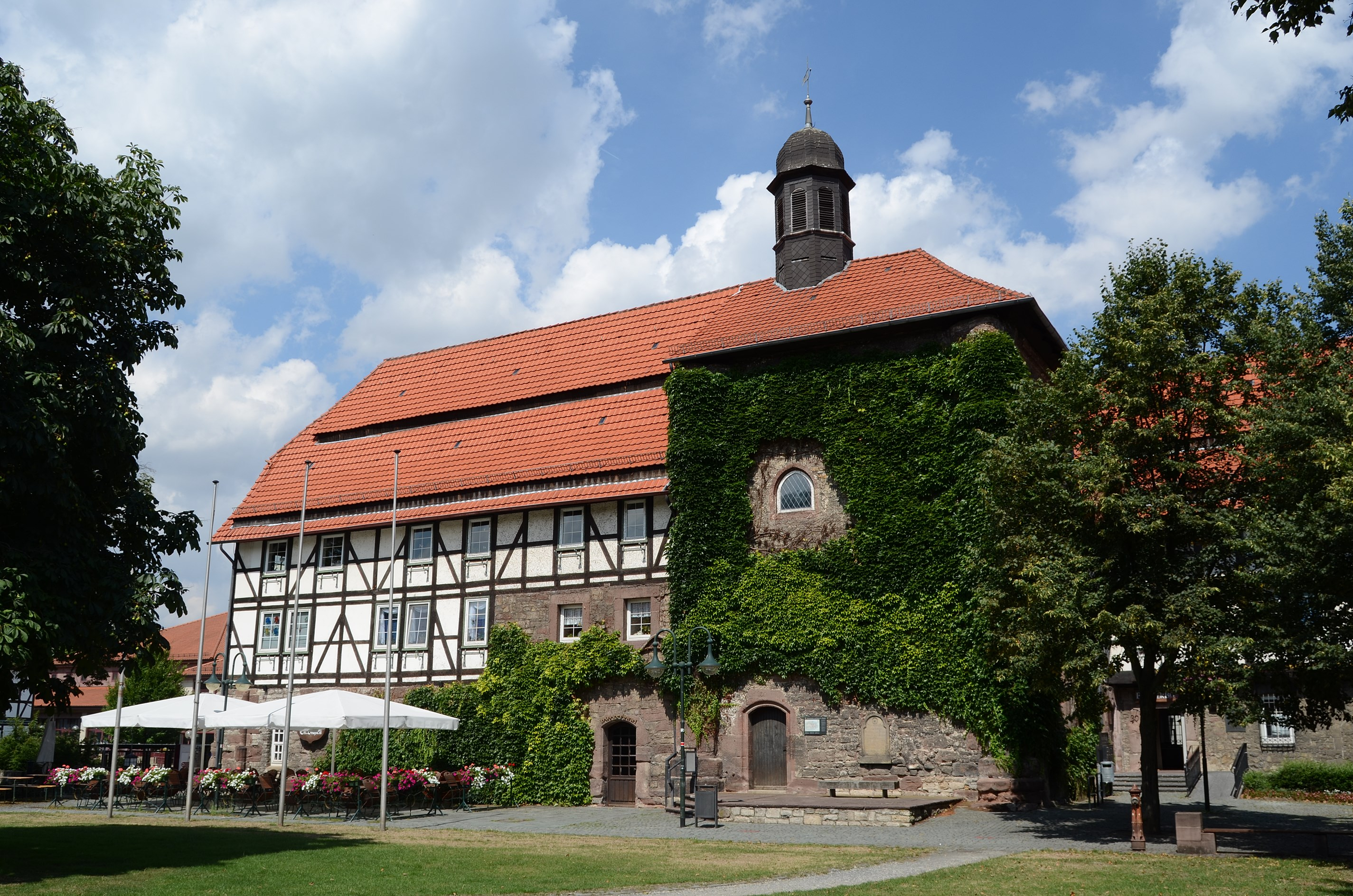 This is a photograph of an architectural monument.It is on the list of cultural monuments of Northeim This photograph was taken with a Nikon D7000 Northeim, so genannter "St.-Blasien-Komplex", erhaltener Teil des ehem. Klosters St. Blasien